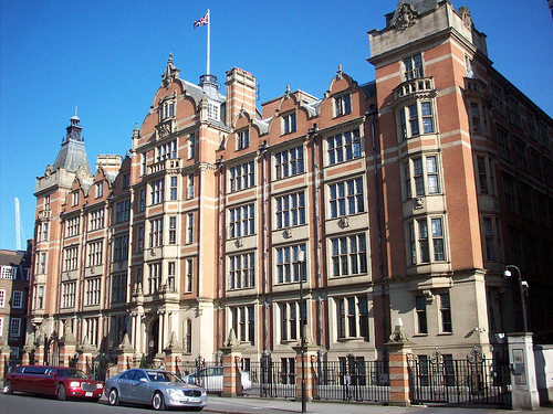 Land Registry Office, Lincoln Inn Fields